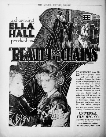 Magazine ad from Moving Picture Weekly for the American romantic drama film Beauty in Chains (1918).